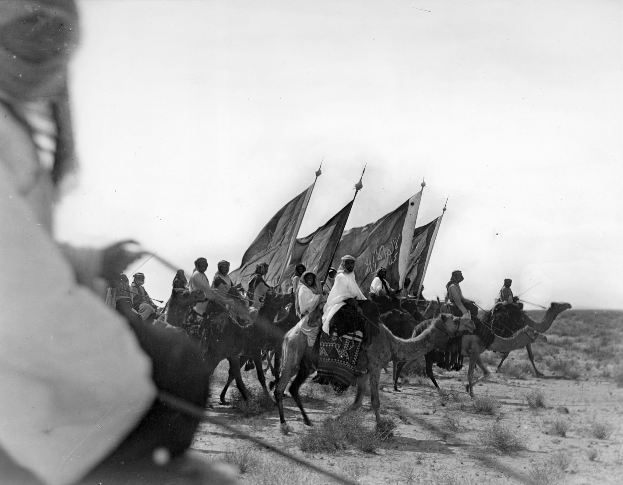 Ikhwan